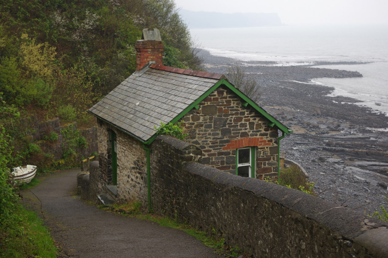 Bucks Cabin, Buck's Mills